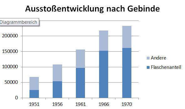 Graph about the output of the brewery Kaltenhausen